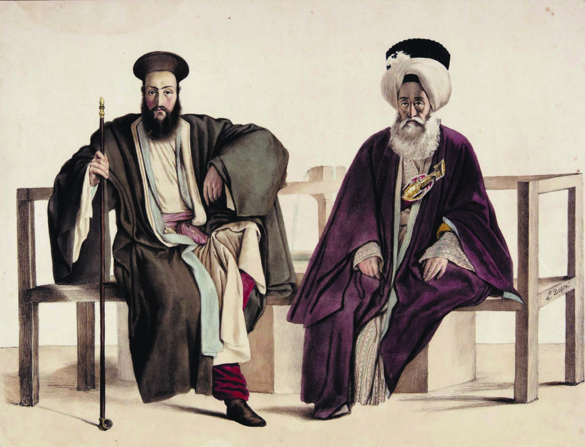 "Un Prêtre Grec et un Turc", pl. xxvii in Louis Dupré, Voyage A Athènes et A Constantinople (Paris, 1825). The figure on the right is Mehmet Agha Salam, a representative of the Grand Vizier in Athens